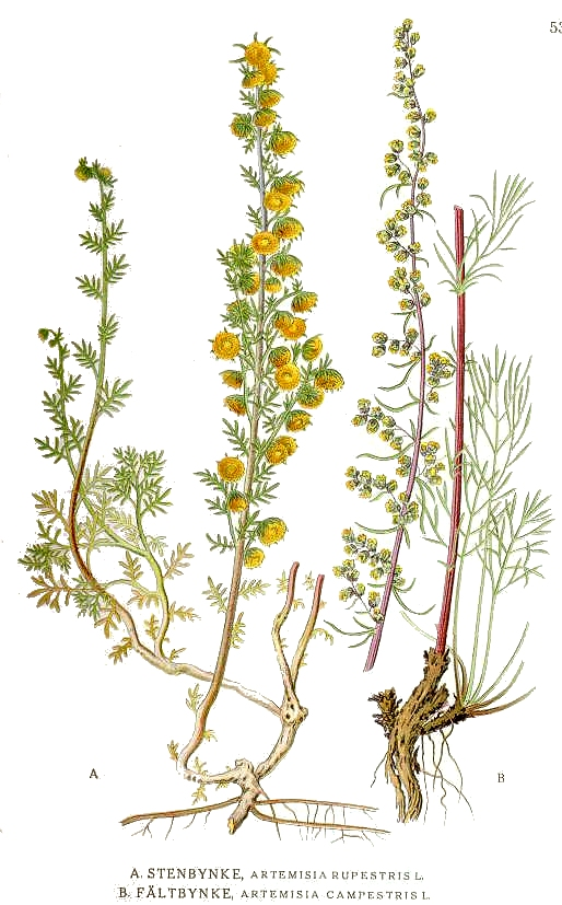 Original Description A. Stenbynke, Artemisia rupestris L. B. Fältbynke, Artemisia campestris L.